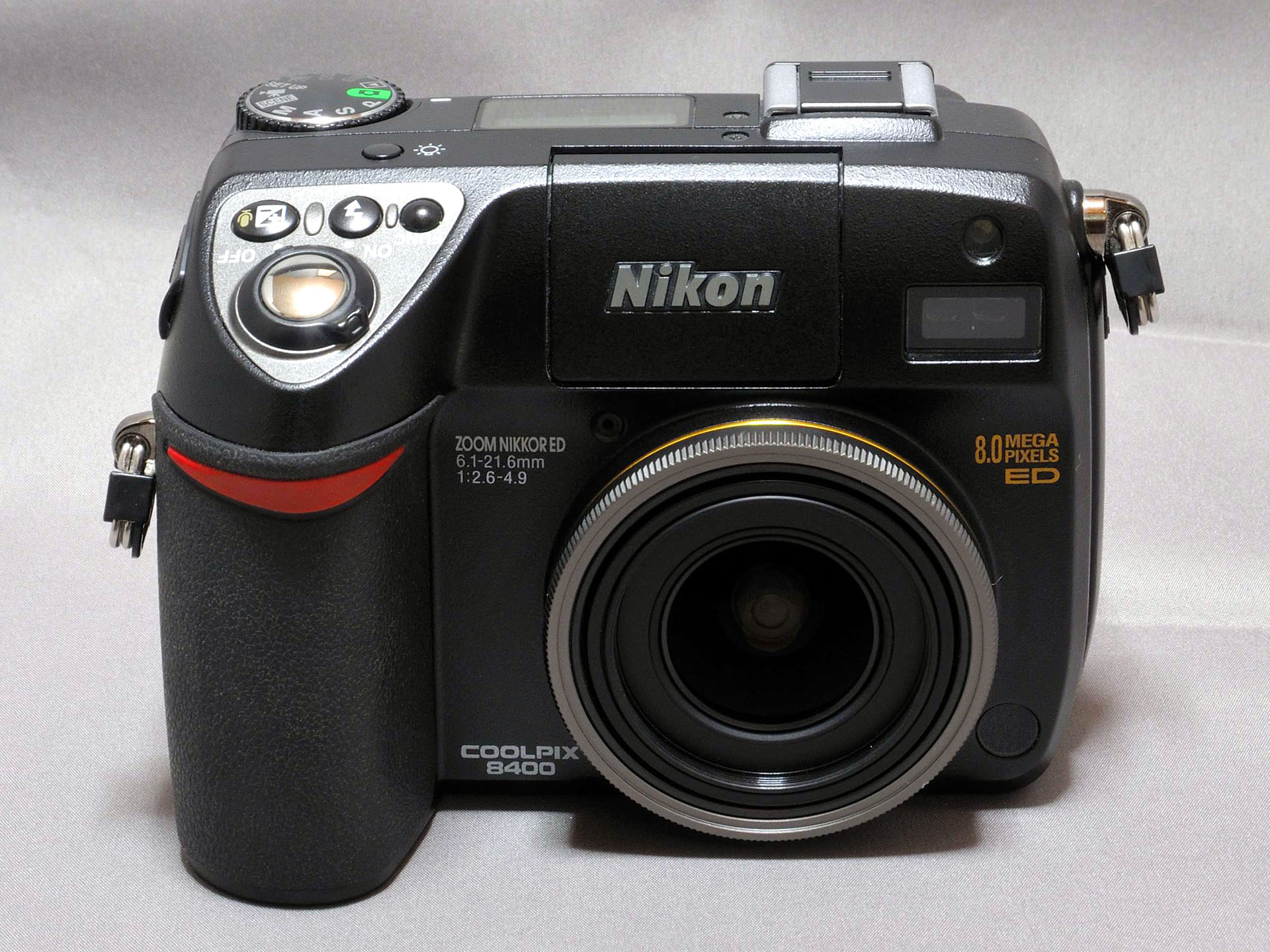 Nikon Coolpix 8400 frontview